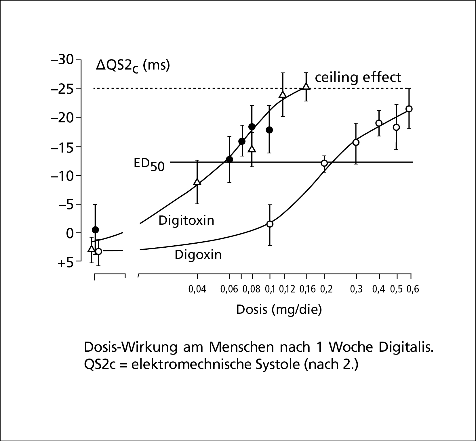 Dose effect of digitalis glycosides in humans